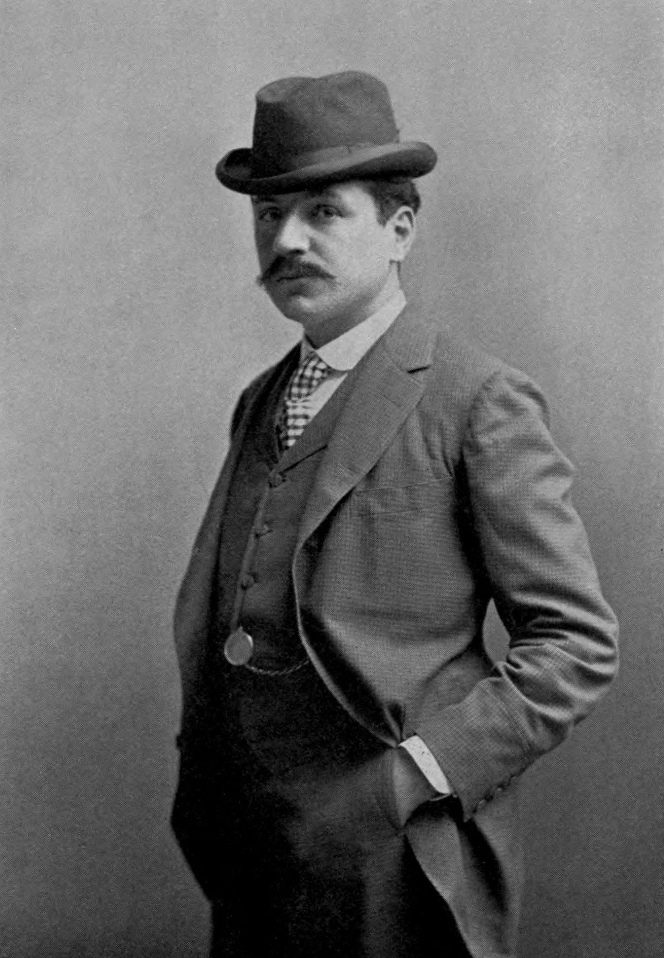 French writer Paul Bourget